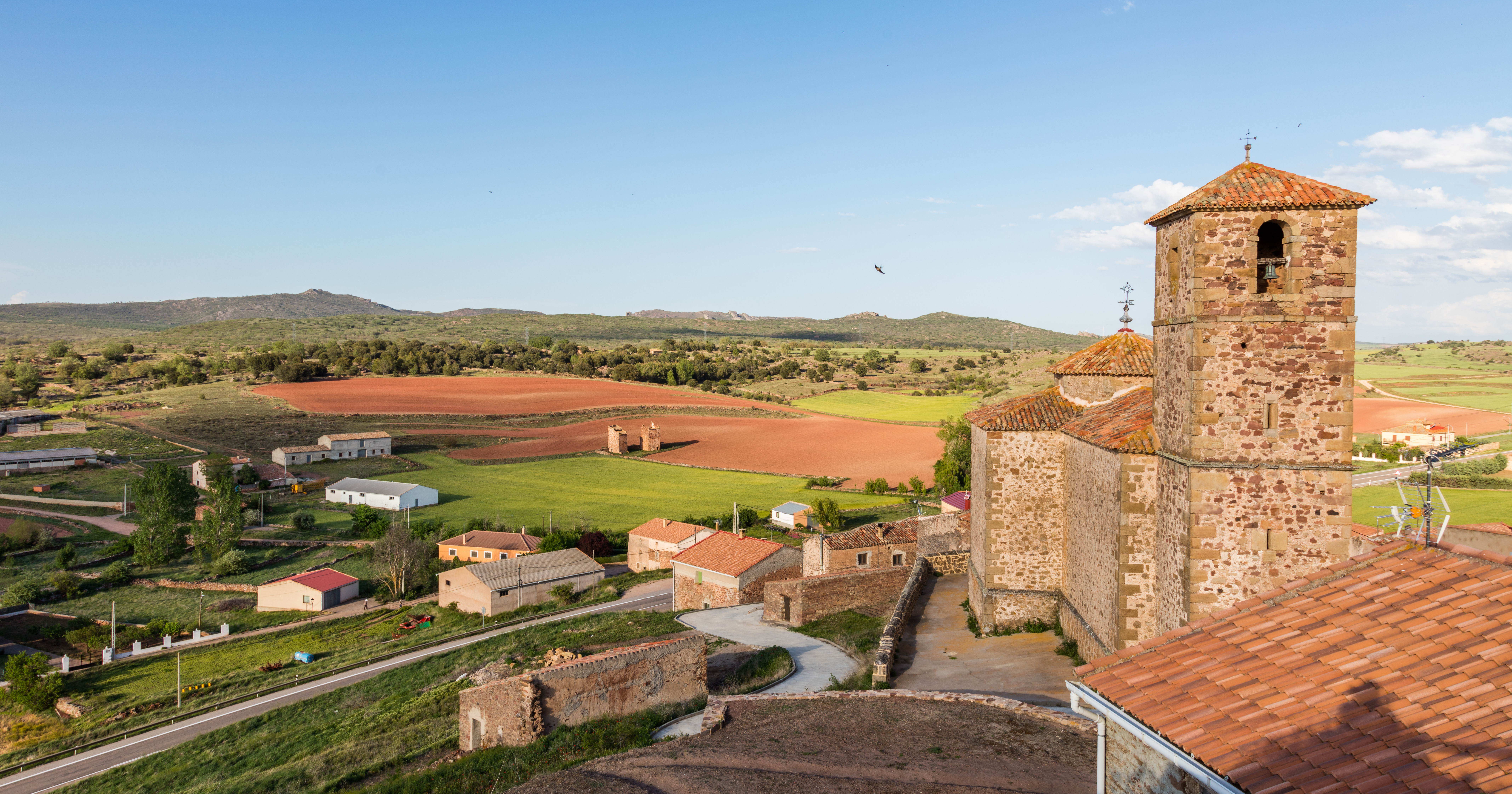 Castellar de la Muela, Guadalajara, Spain